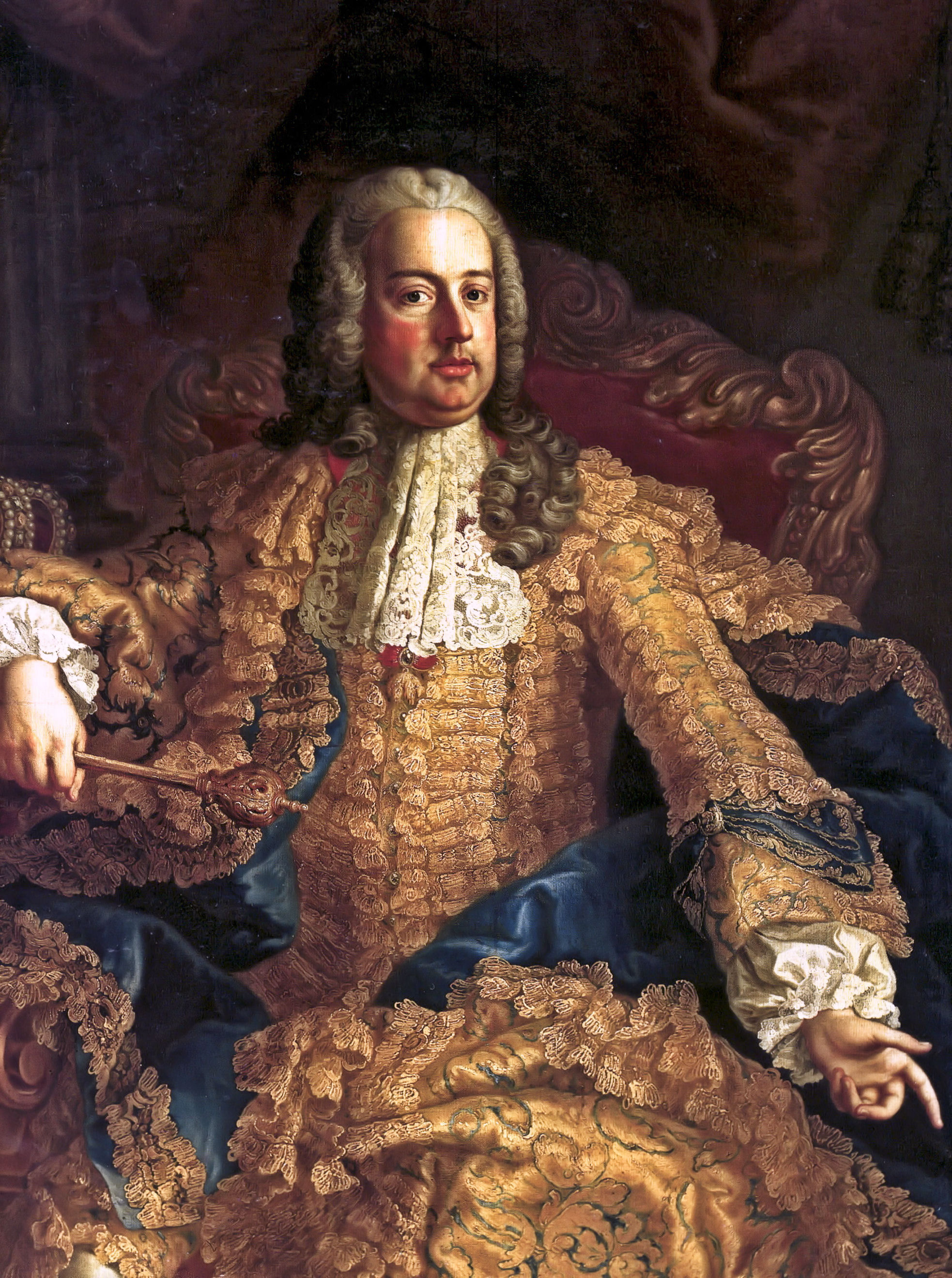 Portrait of Francis I, Holy Roman Emperor (1708-1765)